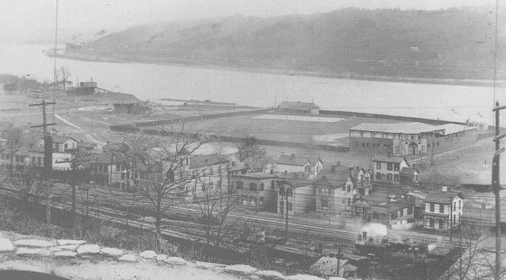 This photo of Pendleton Park was taken "about 10 years" after it was briefly the home of the Cincinnati Kelly's Killers also known as "the Porkers" and "the Reds" of the American Association during 1891. By 1901 it was part of the grounds of the Cincinnati Gymnasium and Athletic Club and a swimming pool had been added.